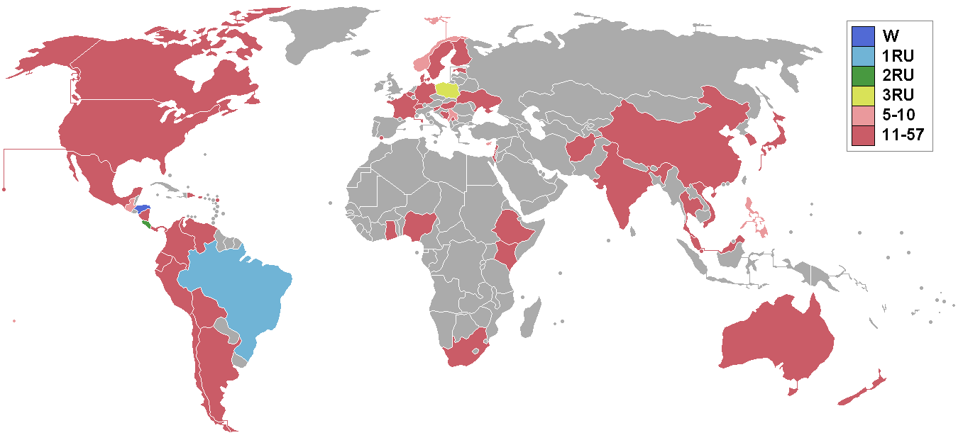 Miss Earth 2003 Map